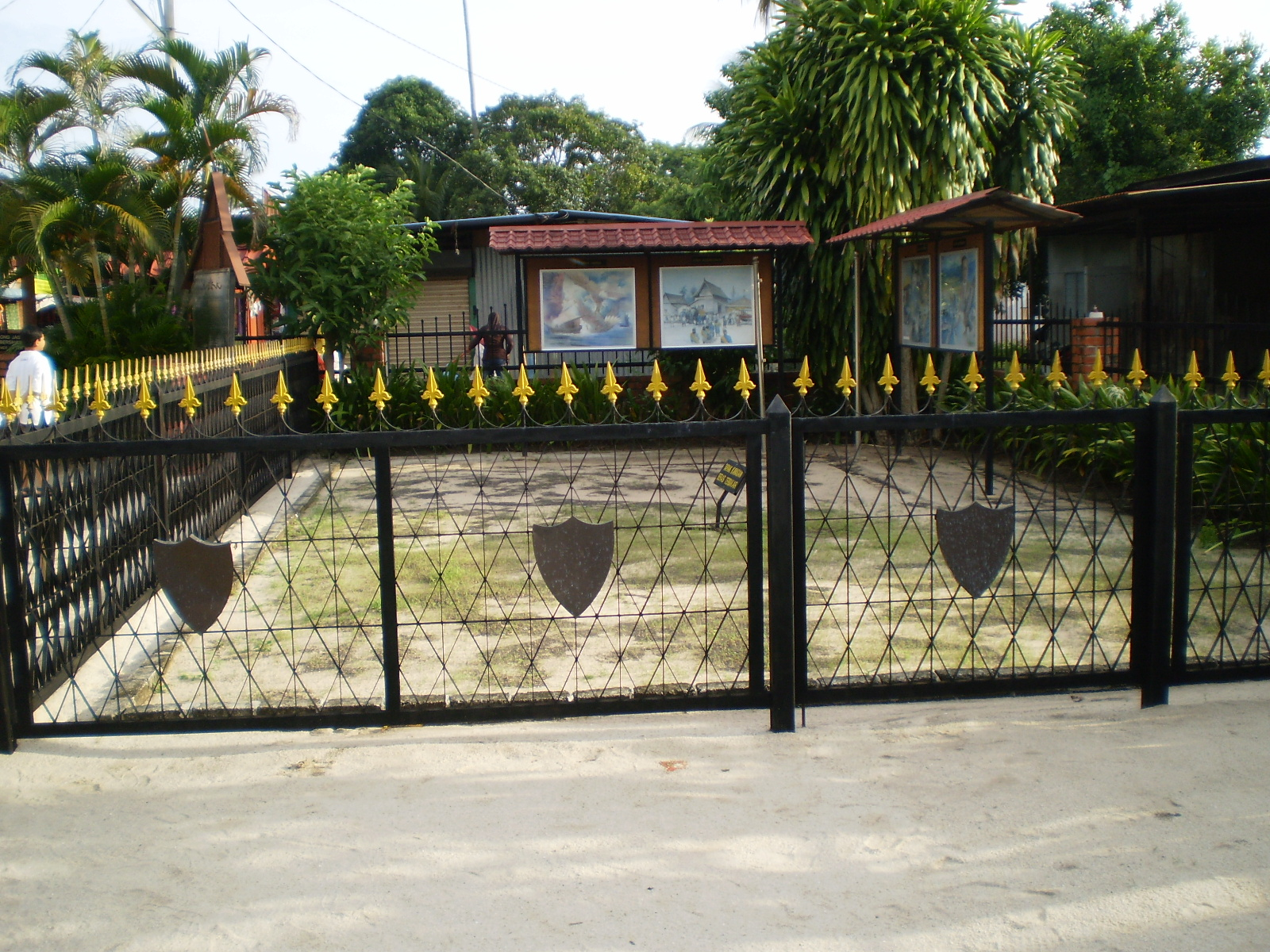 The site of Beras Terbakar, where local leaders ordered to burn all of rice stocks of Langkawi Island in Malaysia, after an attack from Siamese navy. One of the most popular legends in Malaysia.